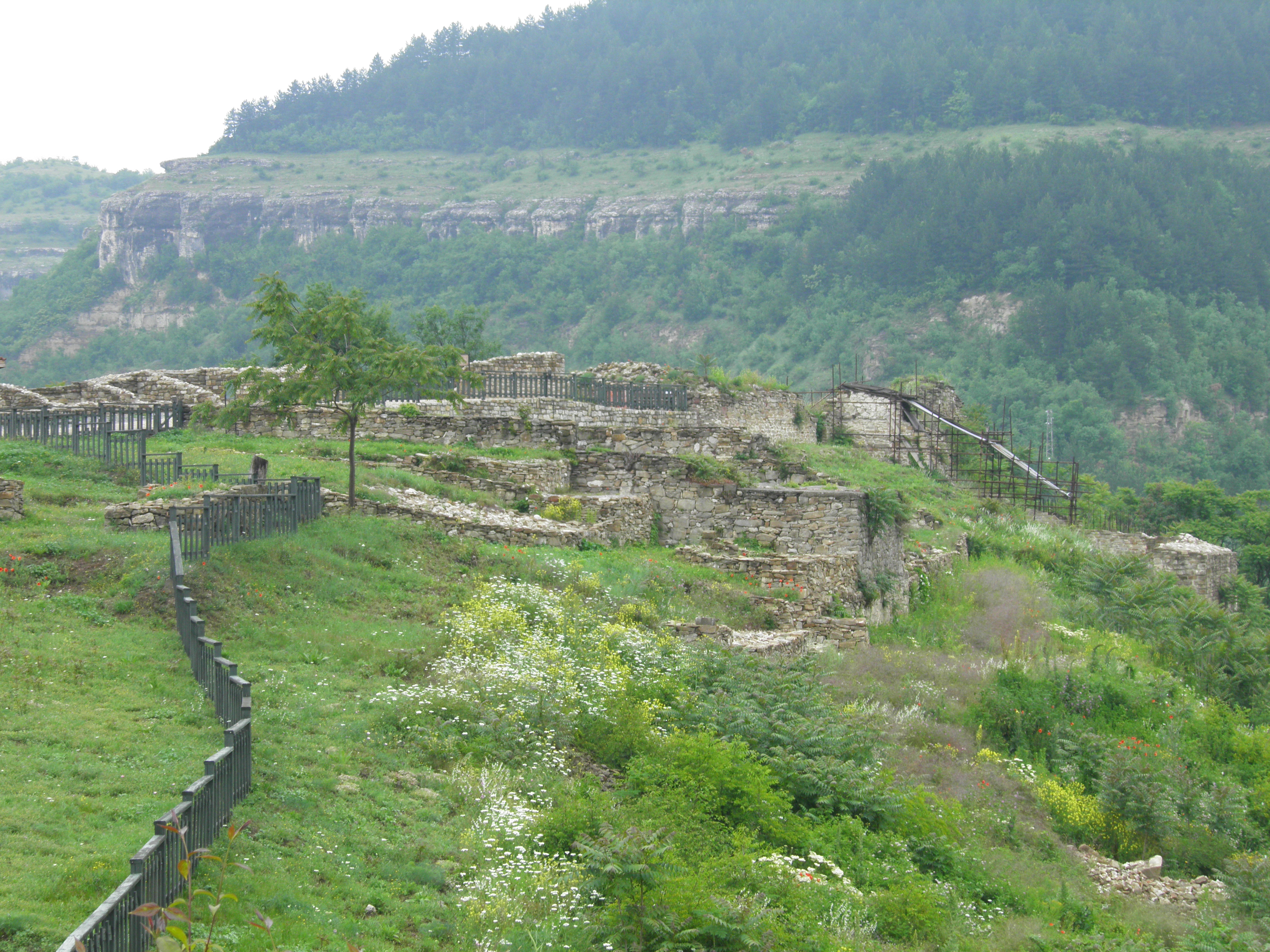 Ruins on Trapezitsa North part,Bulgaria